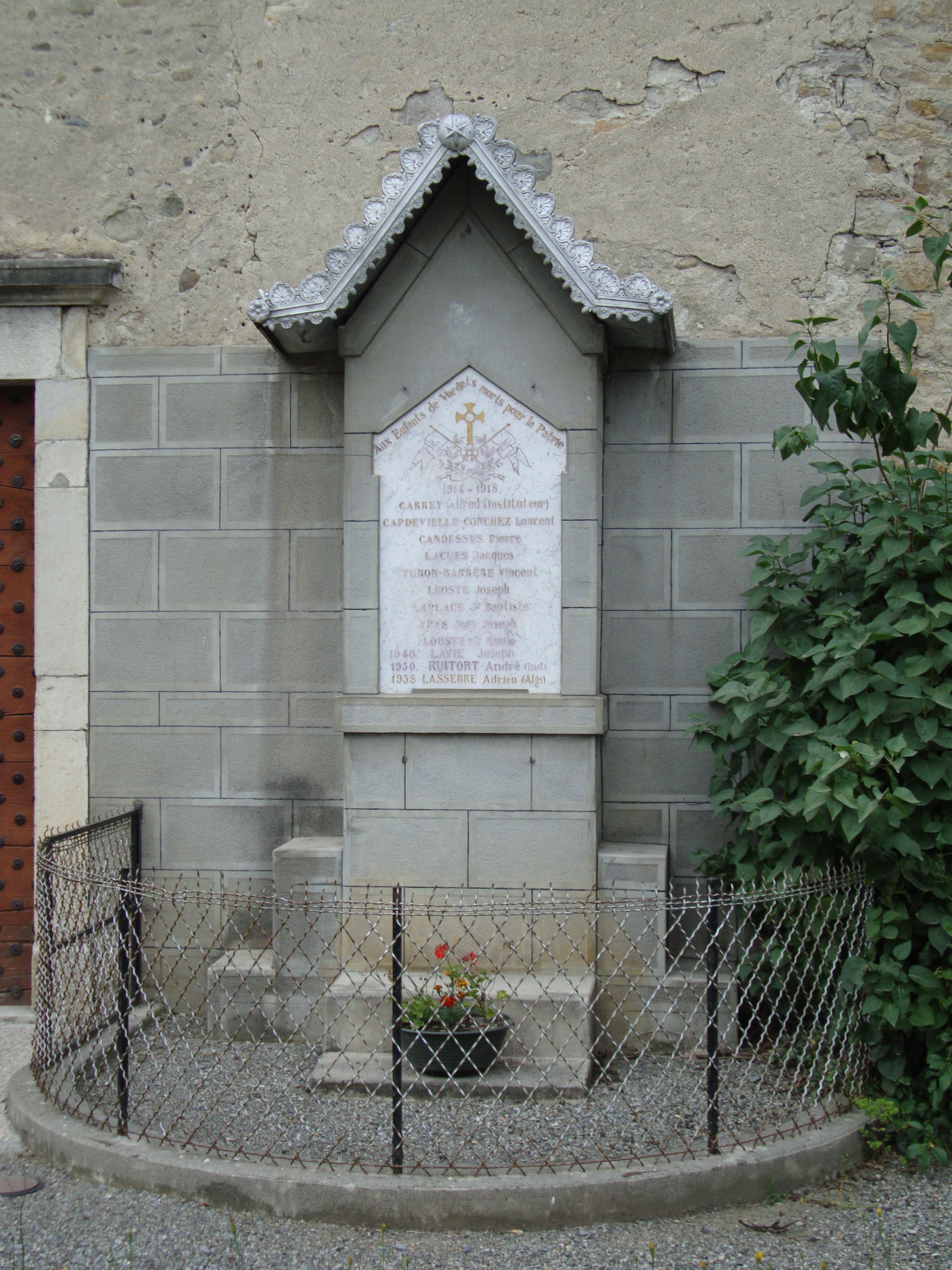 Verdets (Pyr-Atl, Fr) war memorial